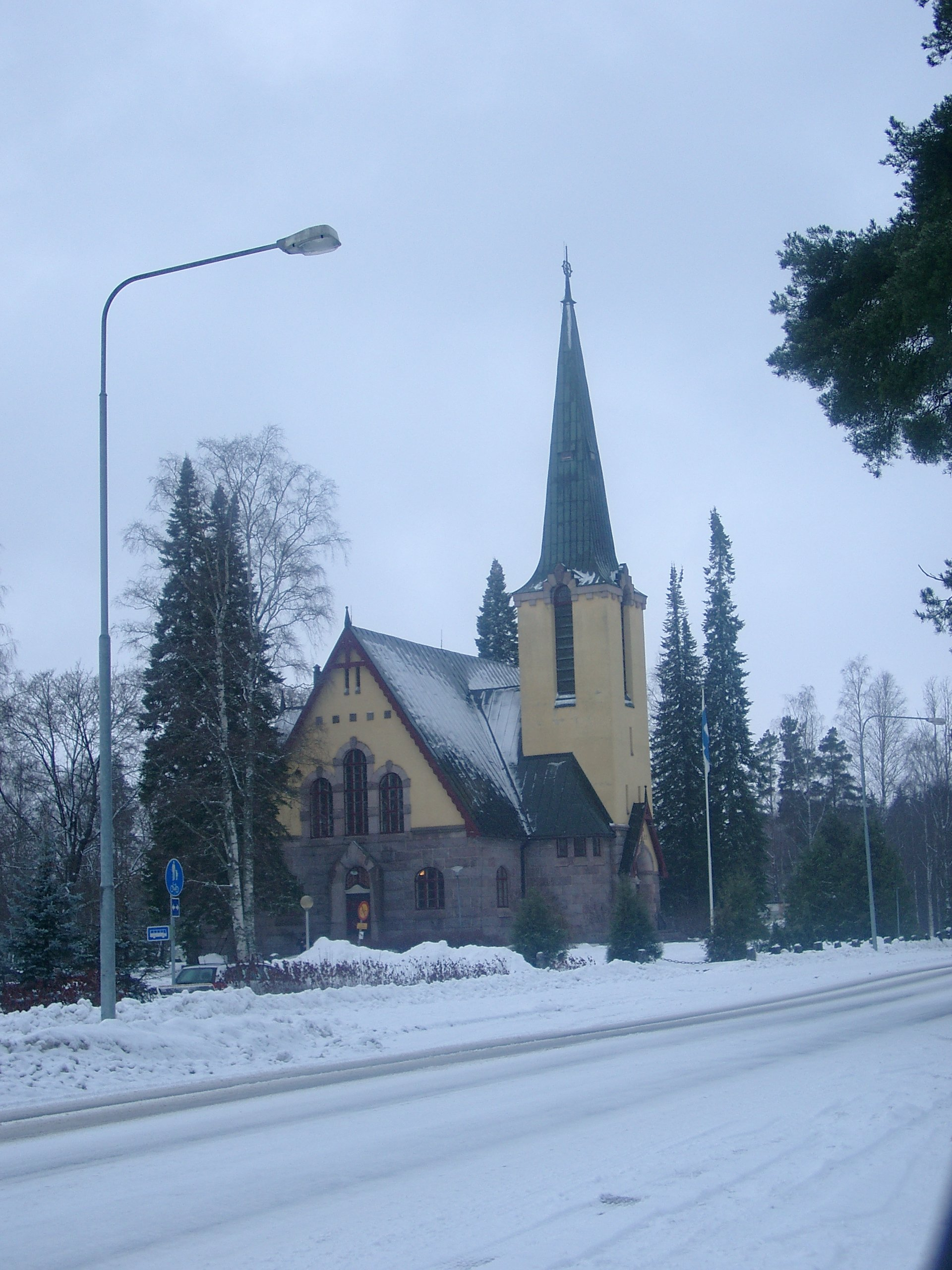 Church of Humppila, Finland